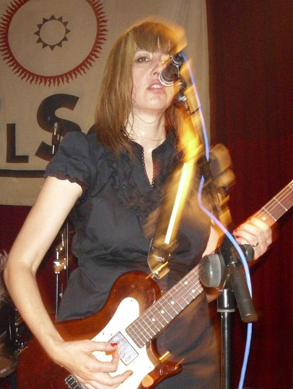 The Muffs at Sala El Sol Madrid, 2009-02-20 Template:Es=